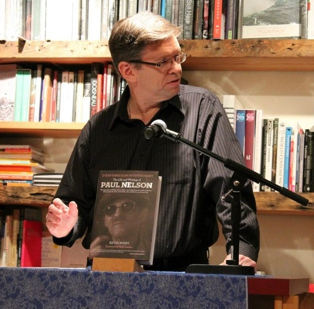 Author Kevin Avery reading at Bookcourt in Brooklyn, New York, on December 13, 2011.